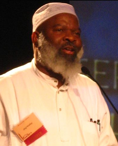 African American Muslim convert, Imam Siraj Wahhaj, at the 42nd Islamic Society of North America convention in Chicago, September 2007.